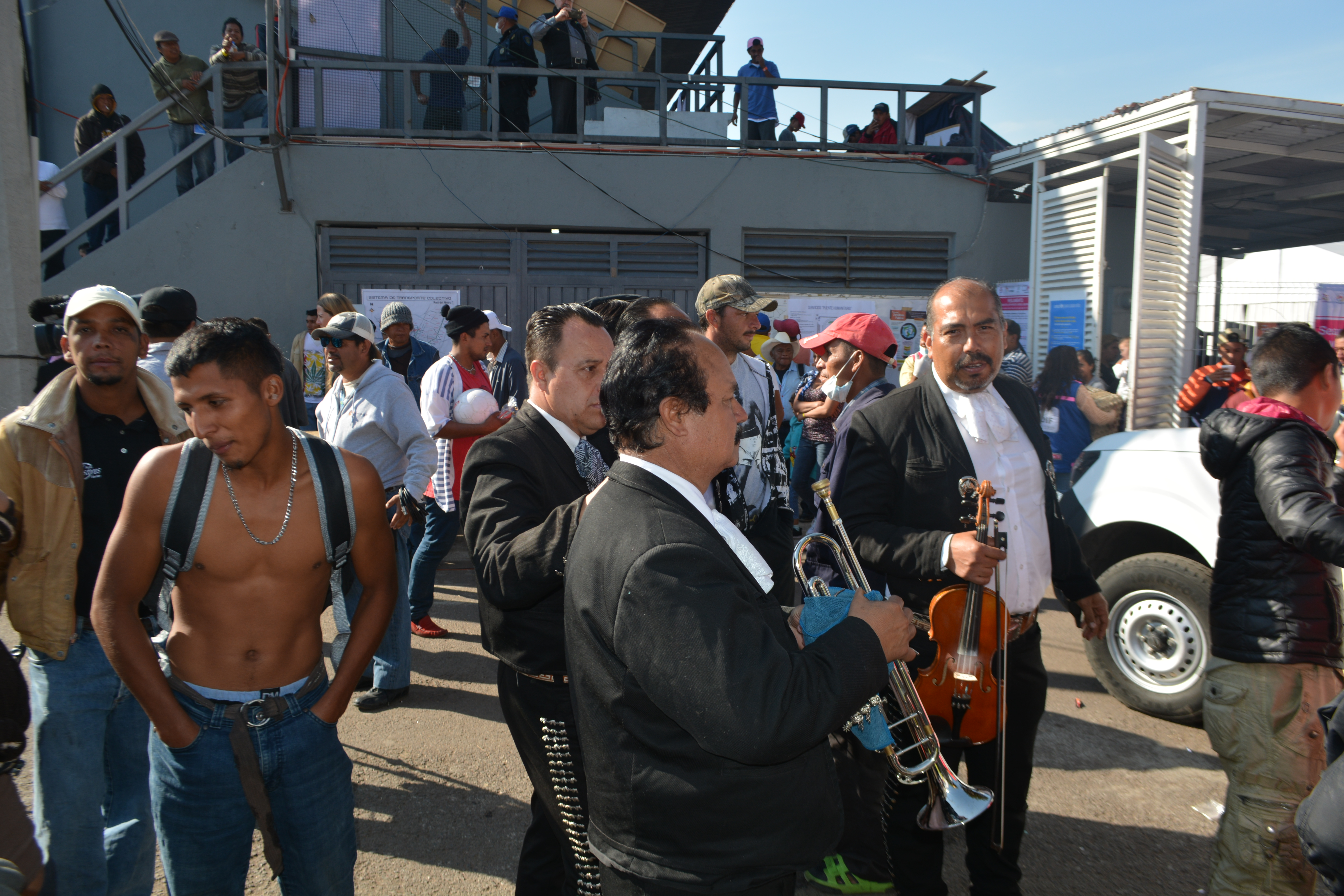 Migrants hearing a mariachi at Ciudad Deportiva Magdalena Mixhuca temporary camp, Mexico City.